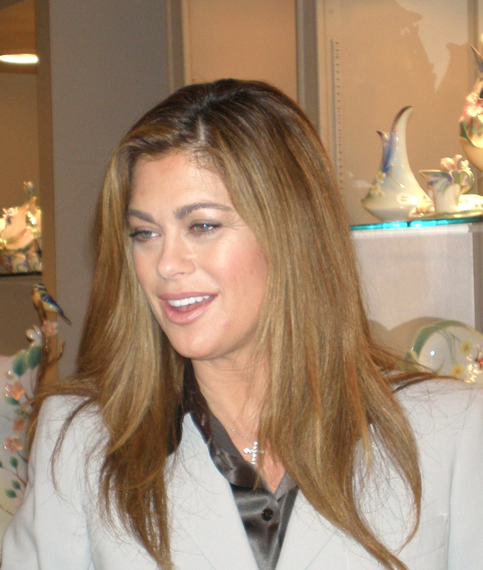 American actress and model Kathy Ireland